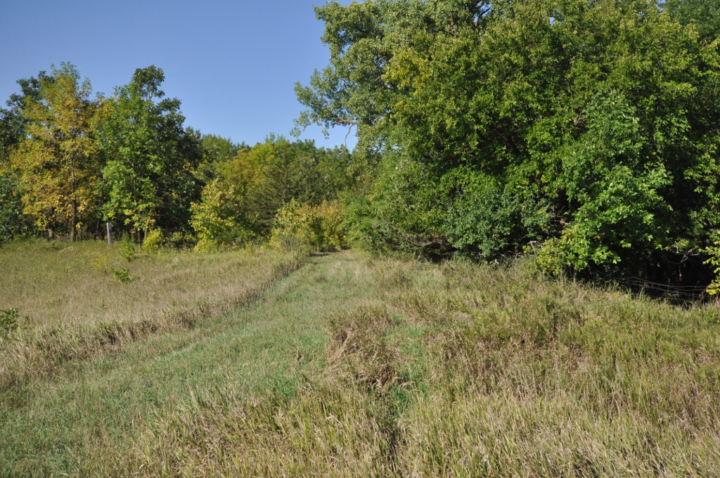 Lincoln Highway-Buttrick's Creek Abandoned Segment, Greene County, Iowa.